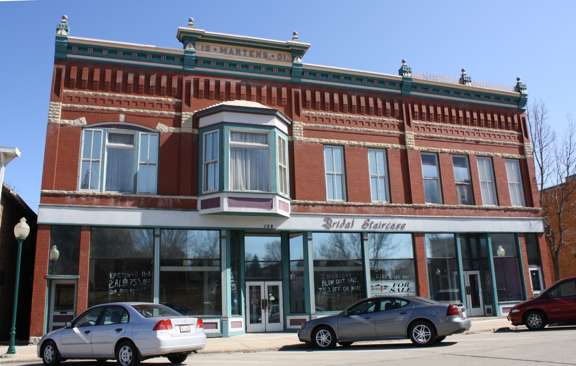 The Julius J. Martens Company Building in Kaukauna, Wisconsin, listed on the National Register of Historic Places.